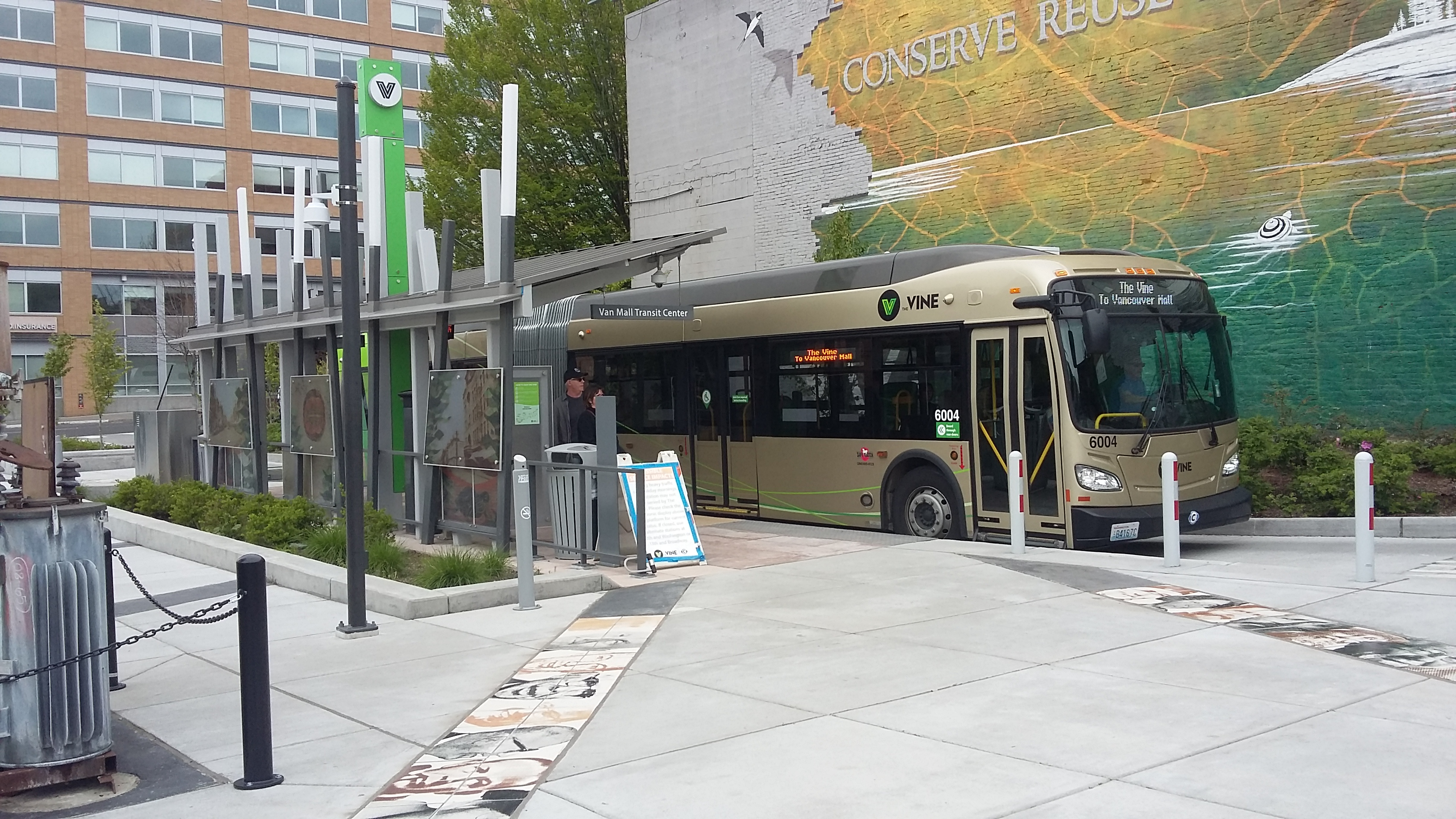 The 7th Street at Turtle Place station of The Vine with a New Flyer XDE60 bus stopped at the station.